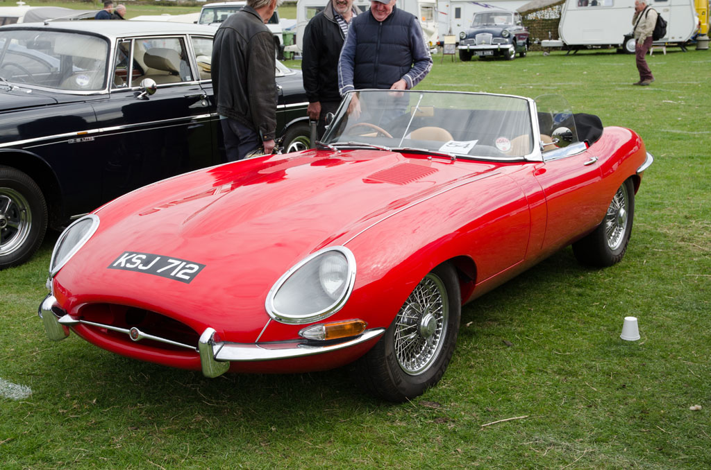 Llandudno Transport Festival 04/05/2013